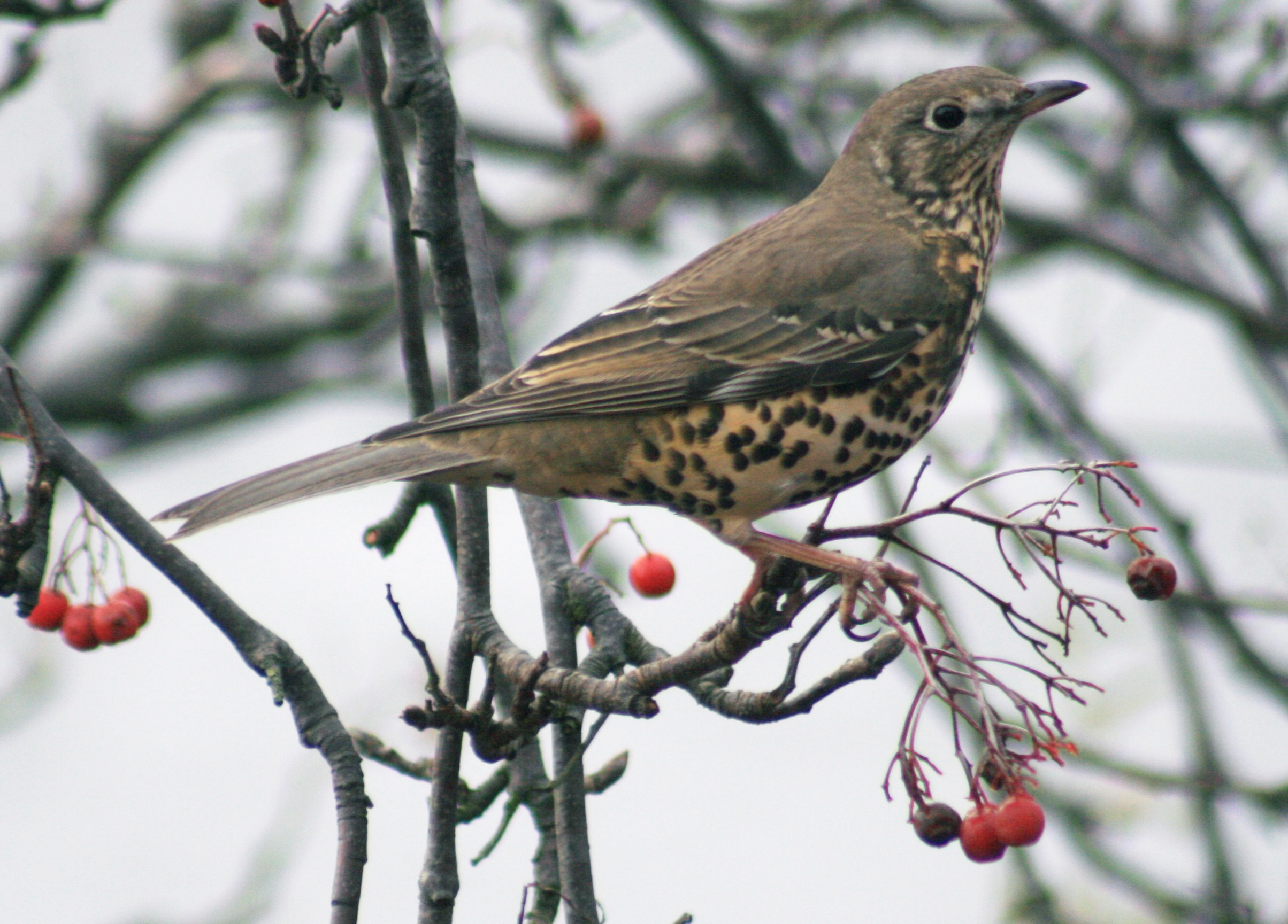 A Mistle Thrush Turdus viscivorus in Dudley, West Midlands, England.